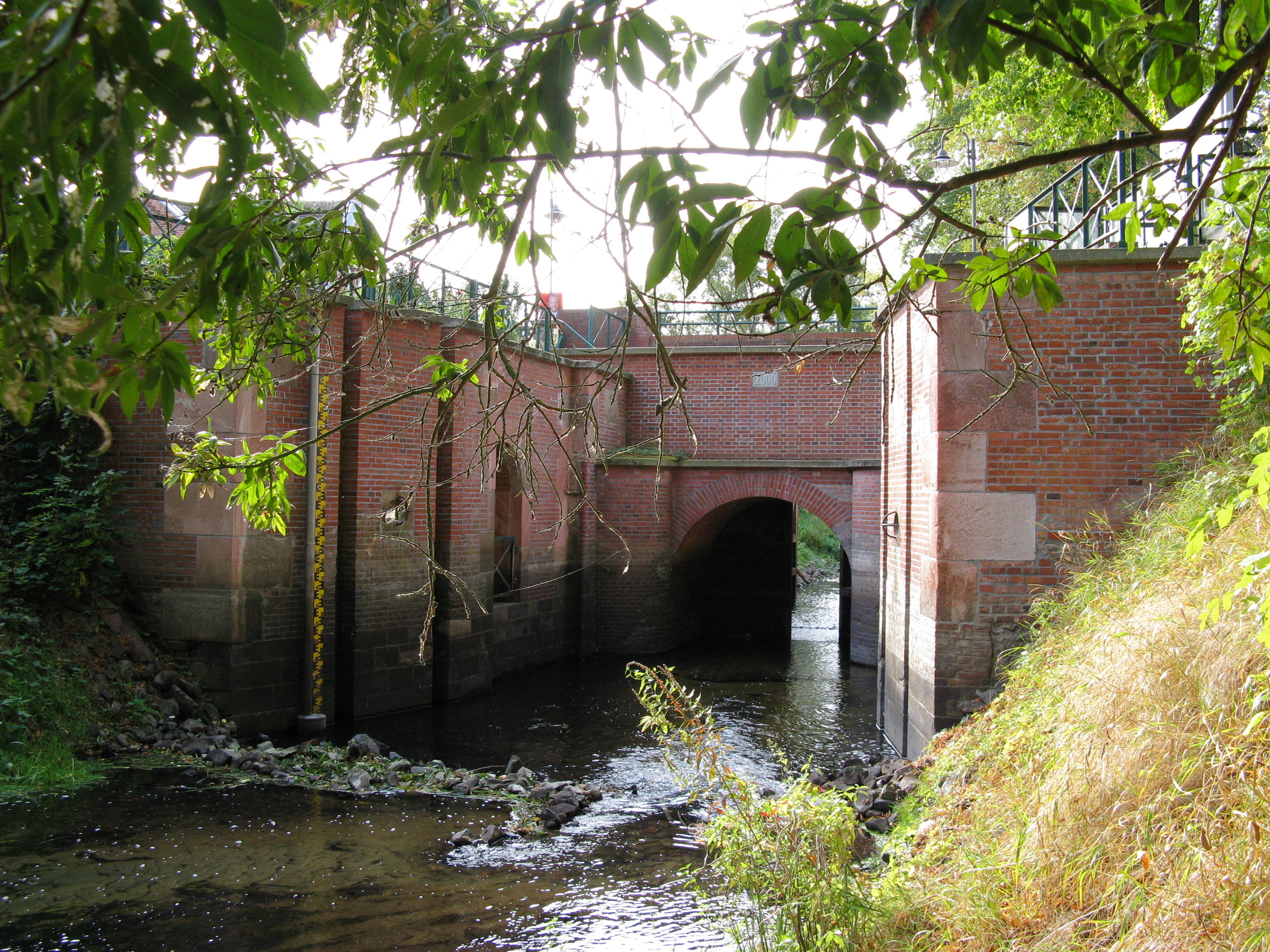 Stony lock at Dove Elde in Dömitz, disctrict Ludwigslust, Mecklenburg-Vorpommern, Germany